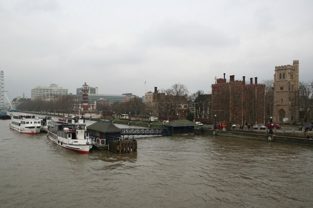 Lambeth Palace from Lambeth Bridge